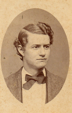 Alfred E. Stone photo